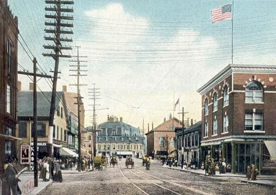 Pleasant Street, Malden, MA; from a c. 1906 postcard.